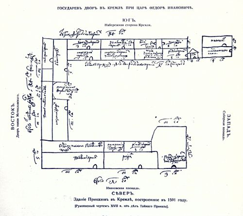 The file describes the layout of the Prikazy building in the Moscow Kremlin (demolished in the end of 18th century). The hand drawing itself is from mid-17th century, the printed text surrounding it is pre-1917. The drawing is "upside down" with north at the bottom.